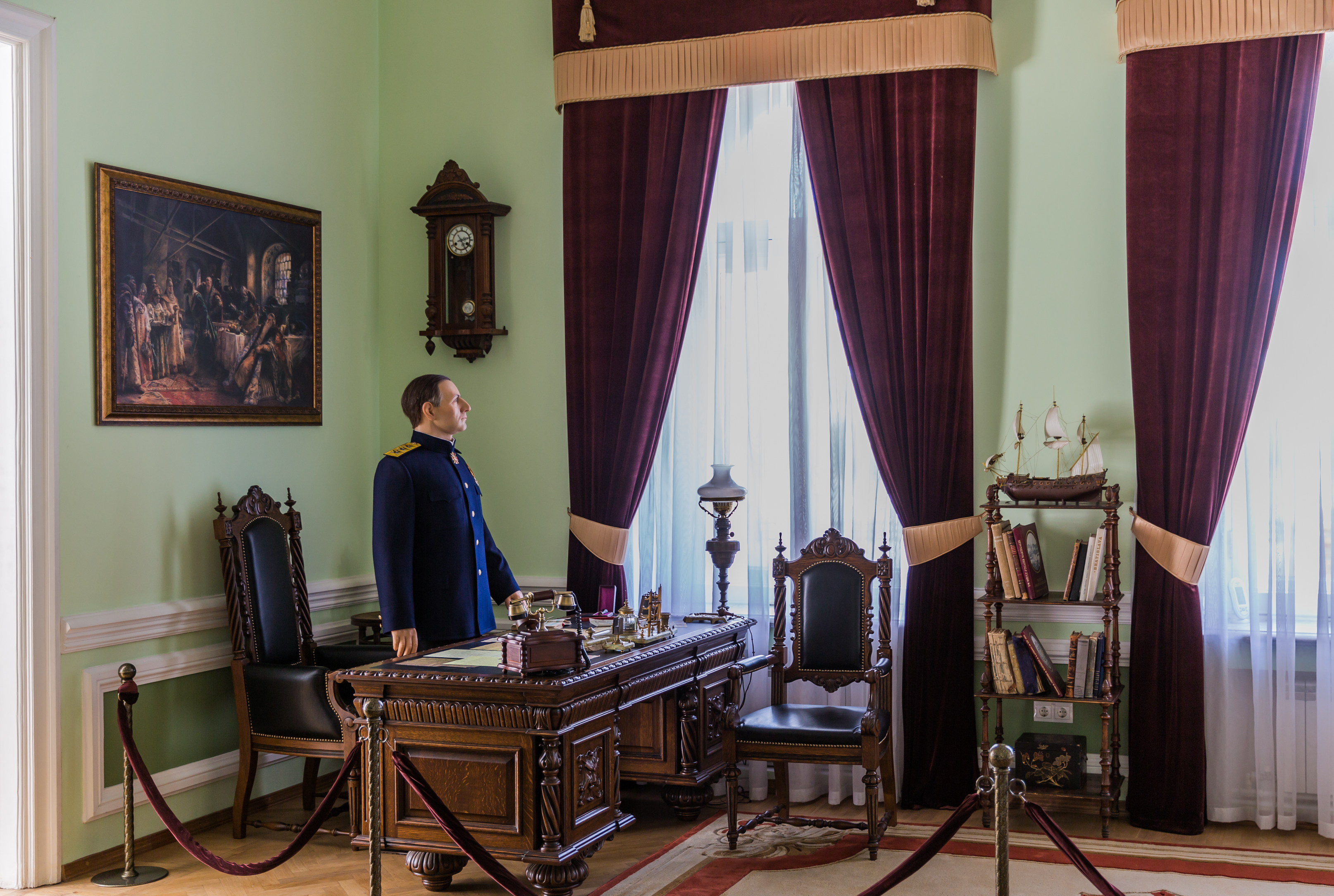 Omsk, Alexander Kolchak in his office